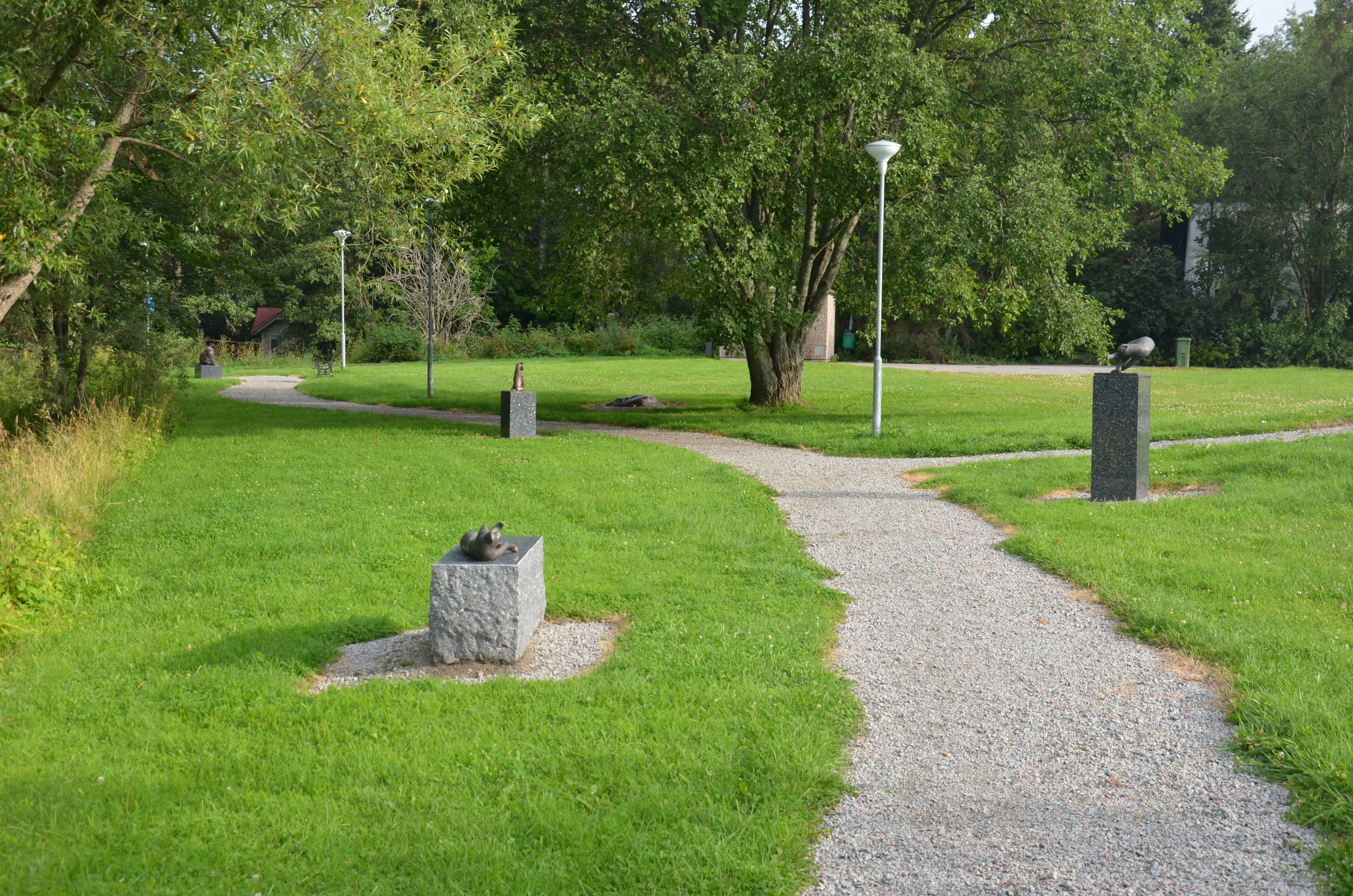 Sculpture Park "Tant Fridas stig", Heby, Sweden